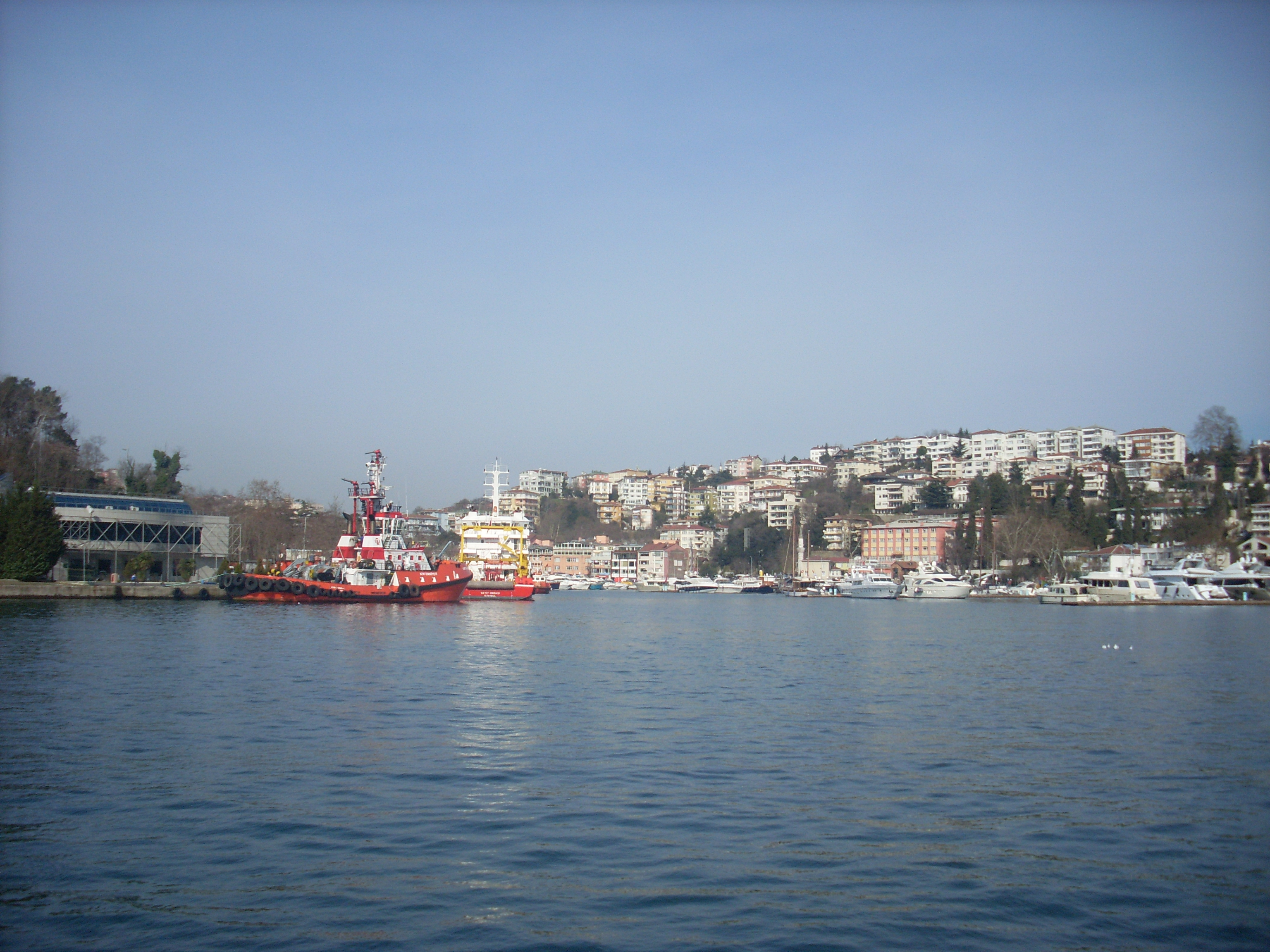 İstanbul - İstinye p2- Feb 2013